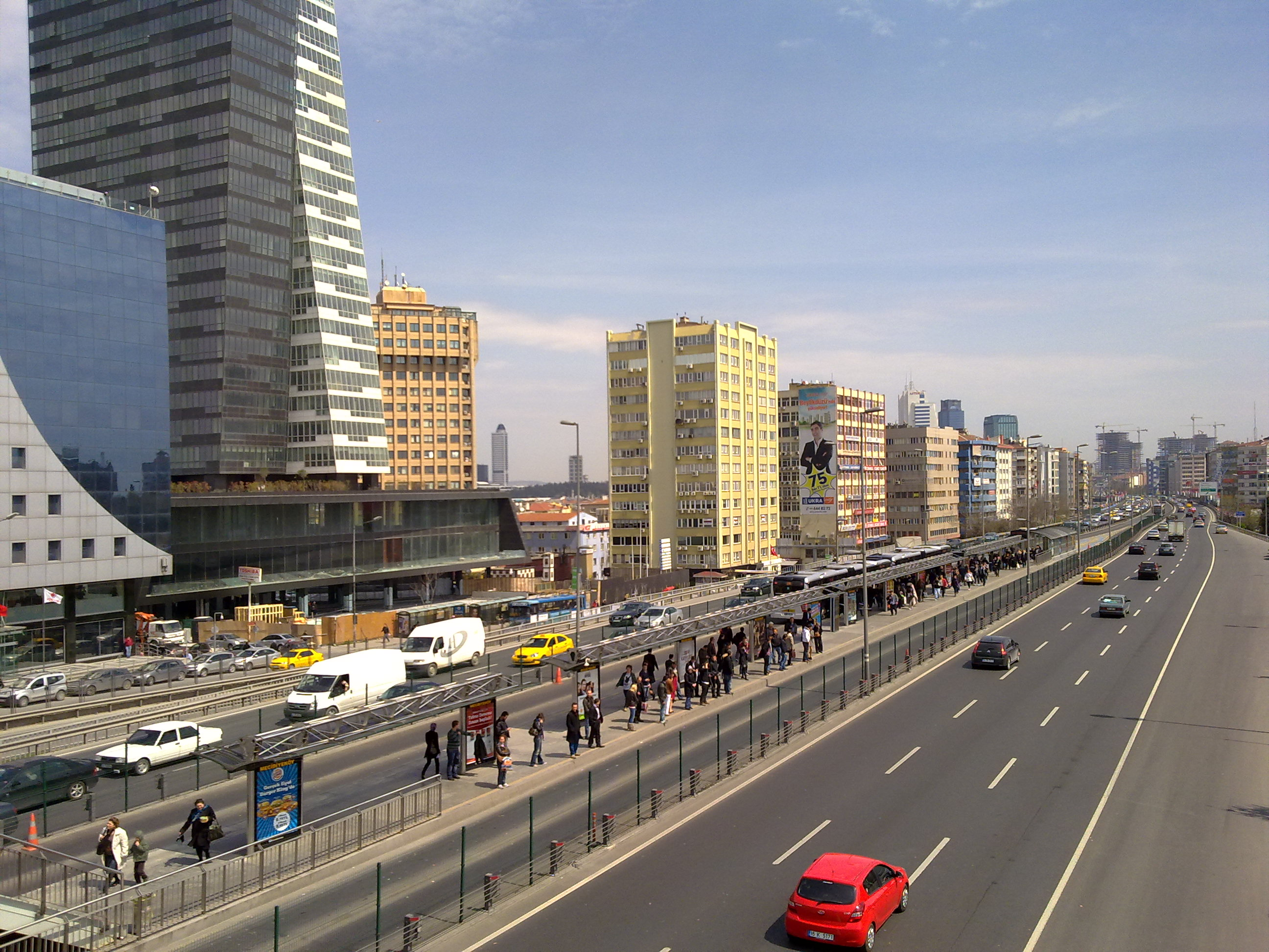 Metrobus (İstanbul) Mecidiyeköy station